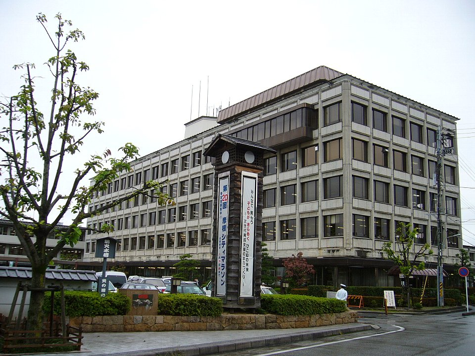 Hikone City Hall in Shiga Prefecture, Japan